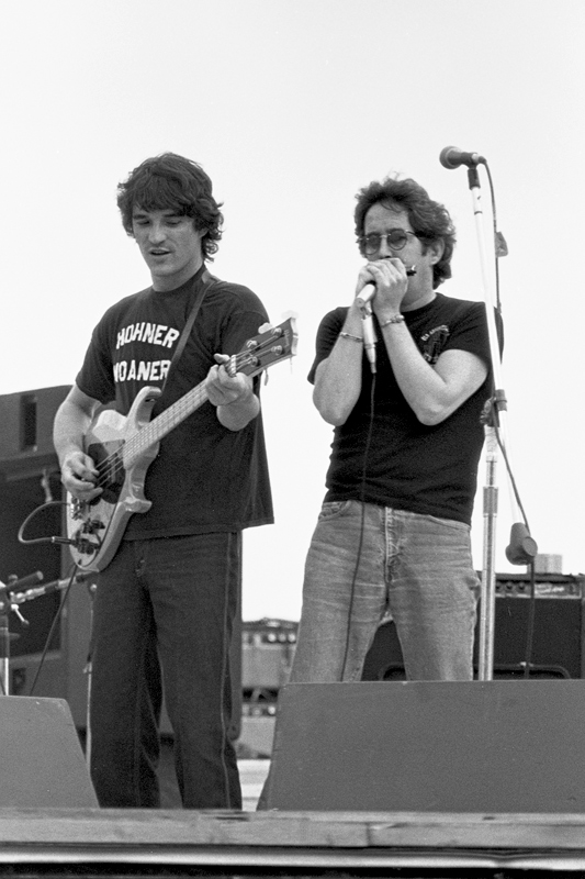 Rick Danko (l), Paul Butterfield (r), Woodstock Reunion, 9/7/79. Parr Meadows, Ridge, NY.